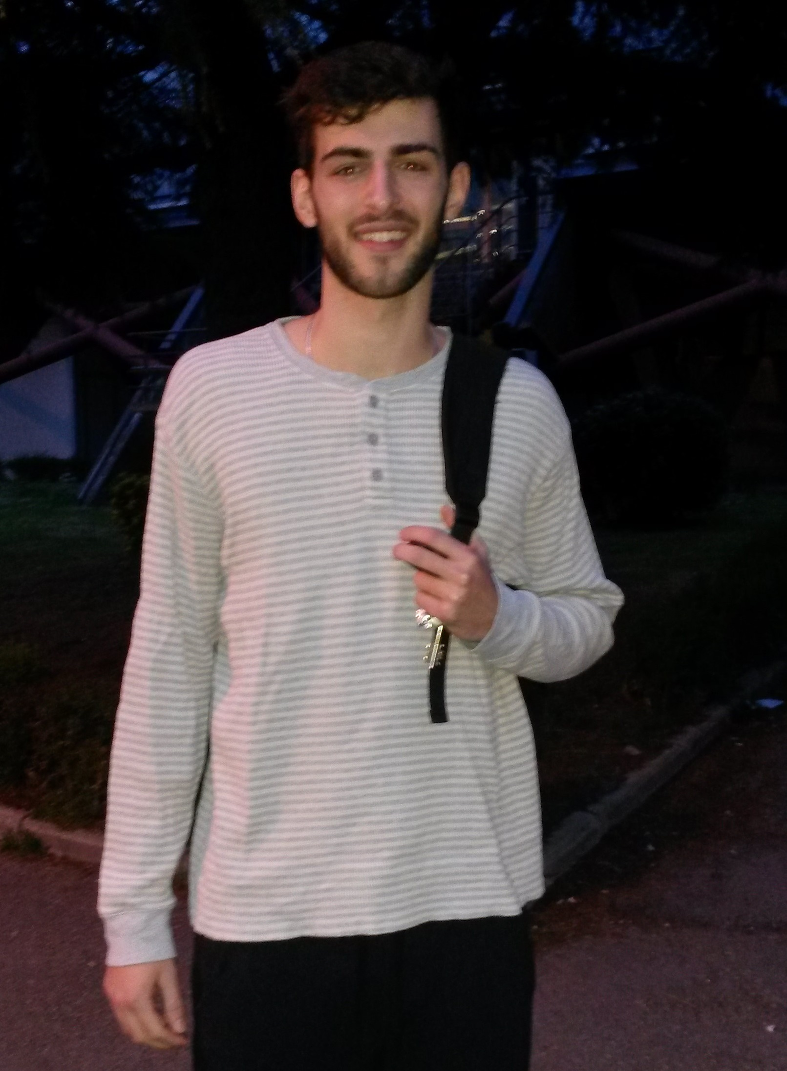 Sir Safety Perugia training at PalaEvangelisti